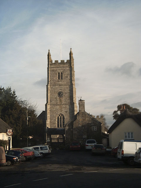 Holy Trinity Church, Drewsteignton.